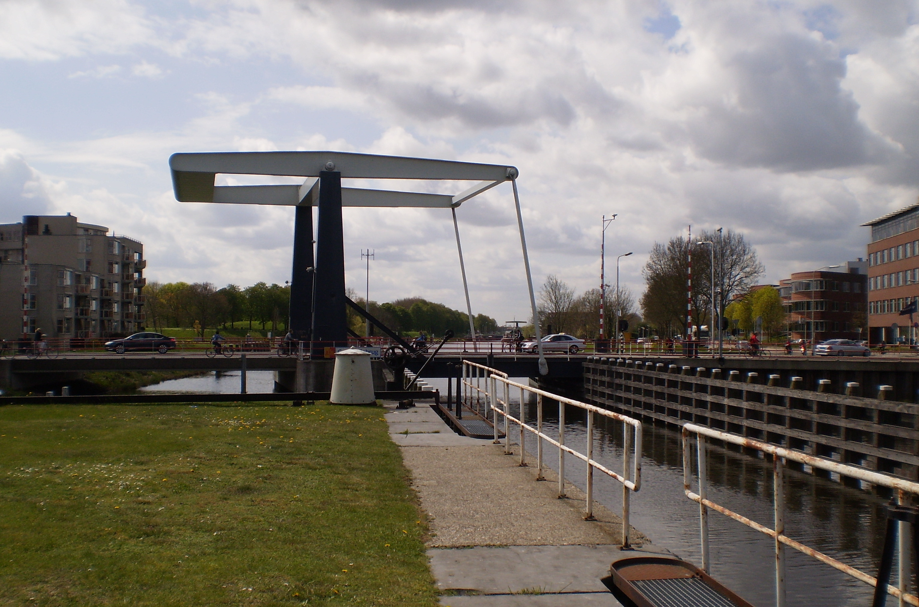 Concordiabrug over the Merwede Canal in Gorinchem, NL